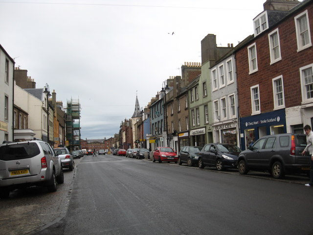 Dunbar The atmospheric High Street in the East Lothian town.